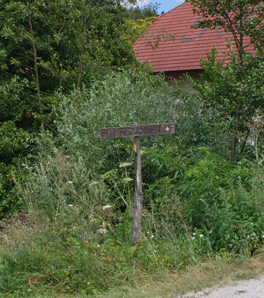 "Pilgrims' Trail": The fingerpost in Hrastovice (Municipality of Mokronog-Trebelno).